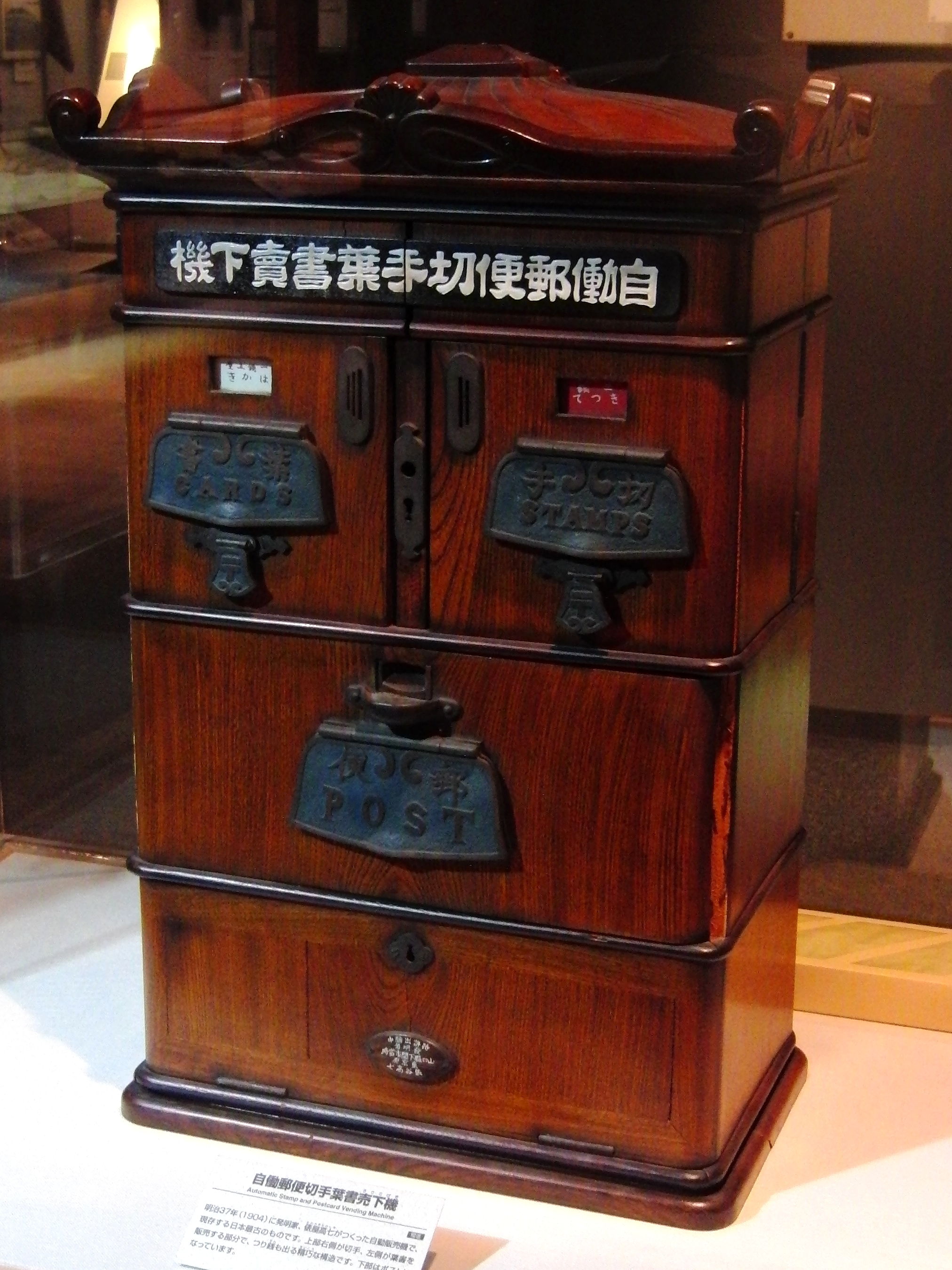 Automatic Stamp and Postcard Vending Machine, replica. This vending machine is made in 1904. The oldest existing vending machine in Japan. Exhibit in the Communications Museum, Tokyo. Explanation by Communications Museum